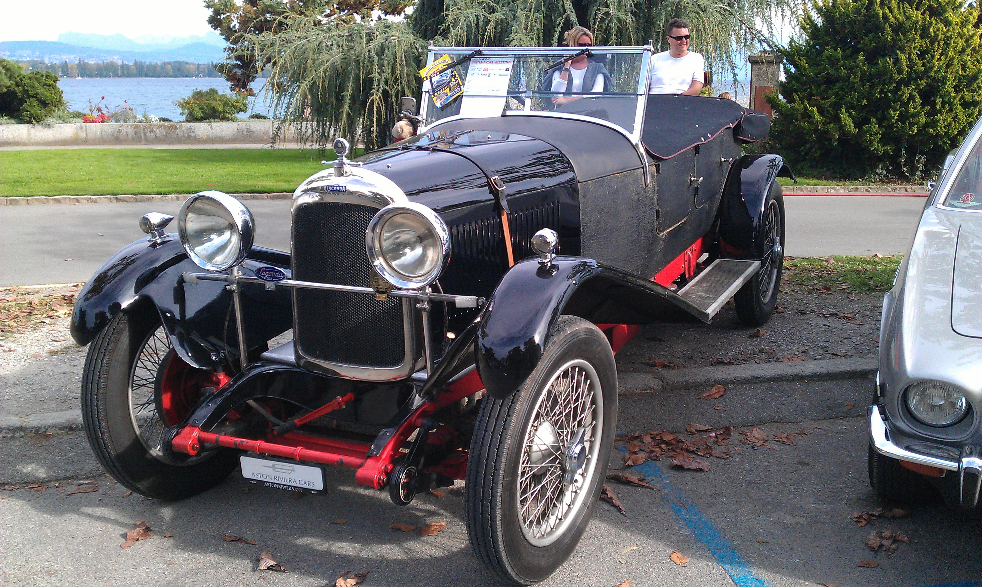 1928 Lagonda 2.0 L high chassis Speed model tourer This particular car was the demonstrator car in the London Lagonda shop in 1928.